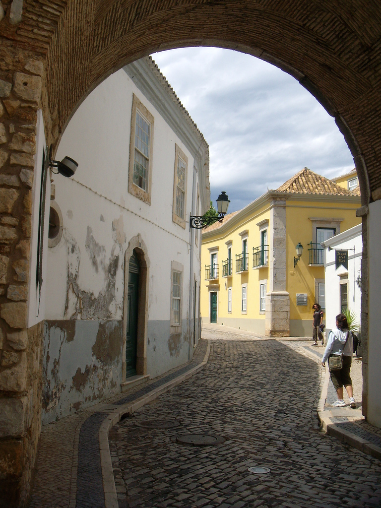 Street in Faro, Portugal